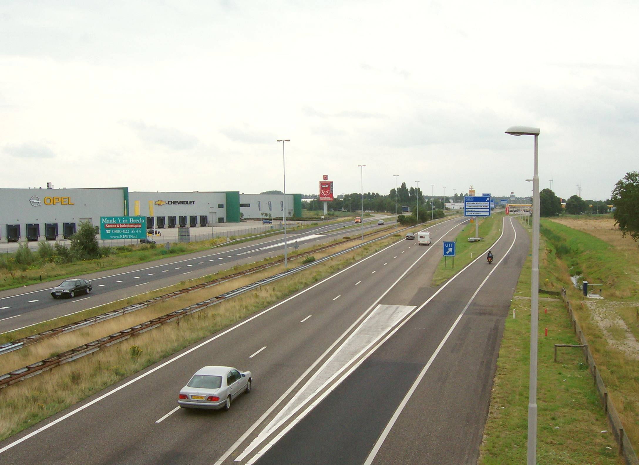 A16 near Belgian border, Breda, Netherlands